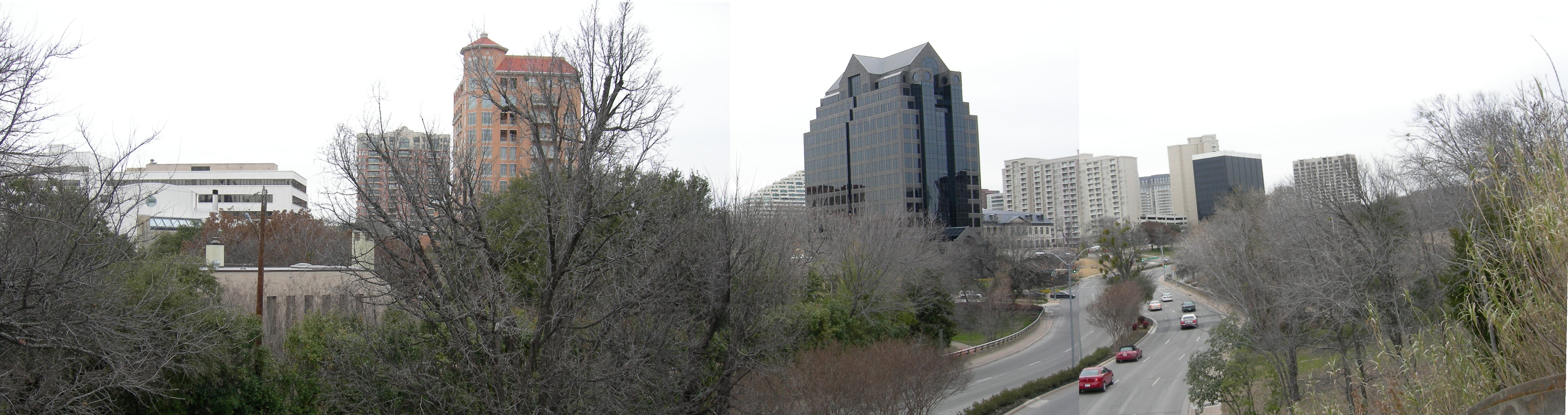 Panoramic view of the Turtle Creek neighborhood in Dallas, Texas, seen from the Katy Trail. Three photos stitched together with GIMP.